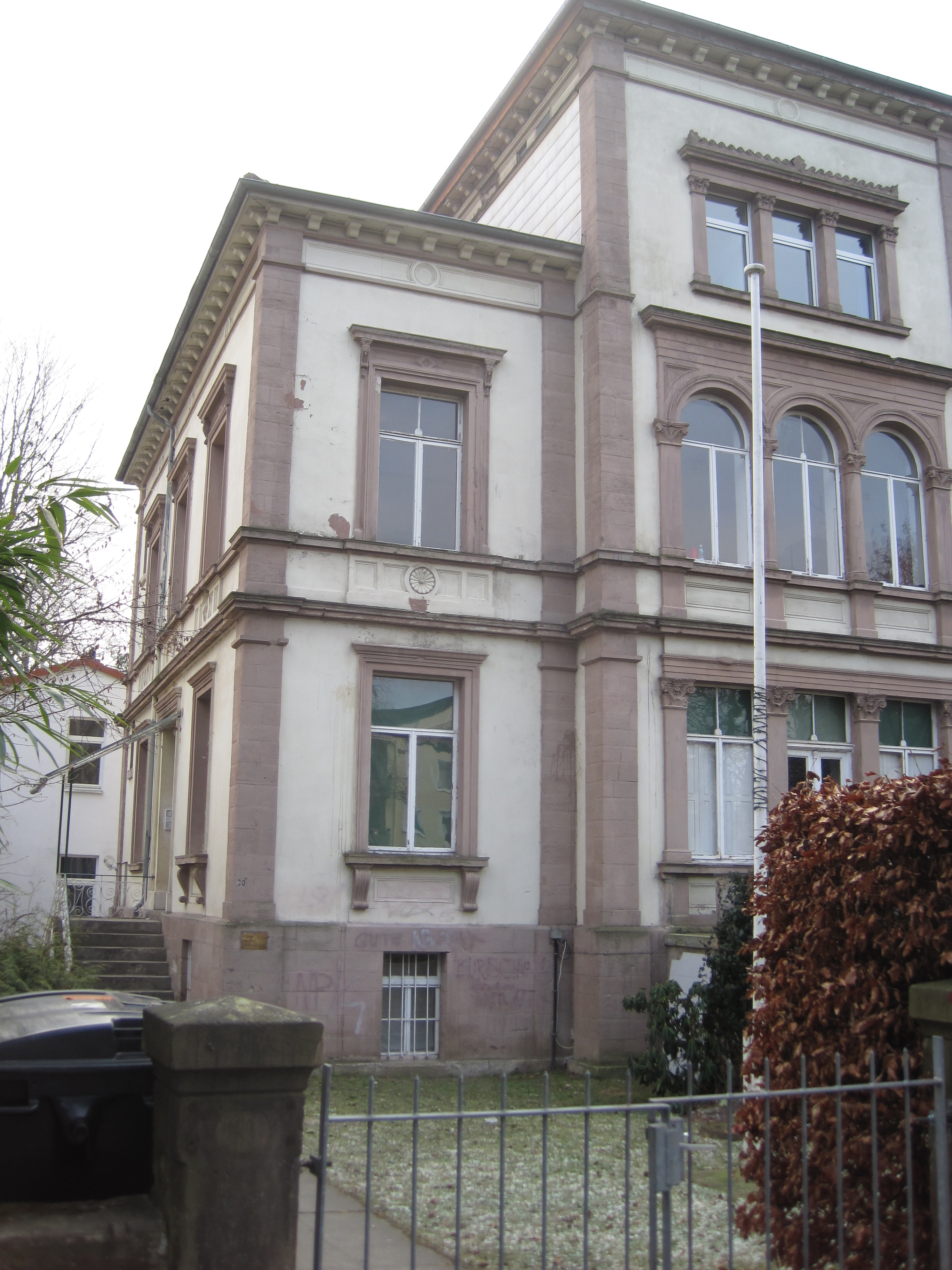 Corpshaus (Conventsquartier) des Corps Curonia in Göttingen